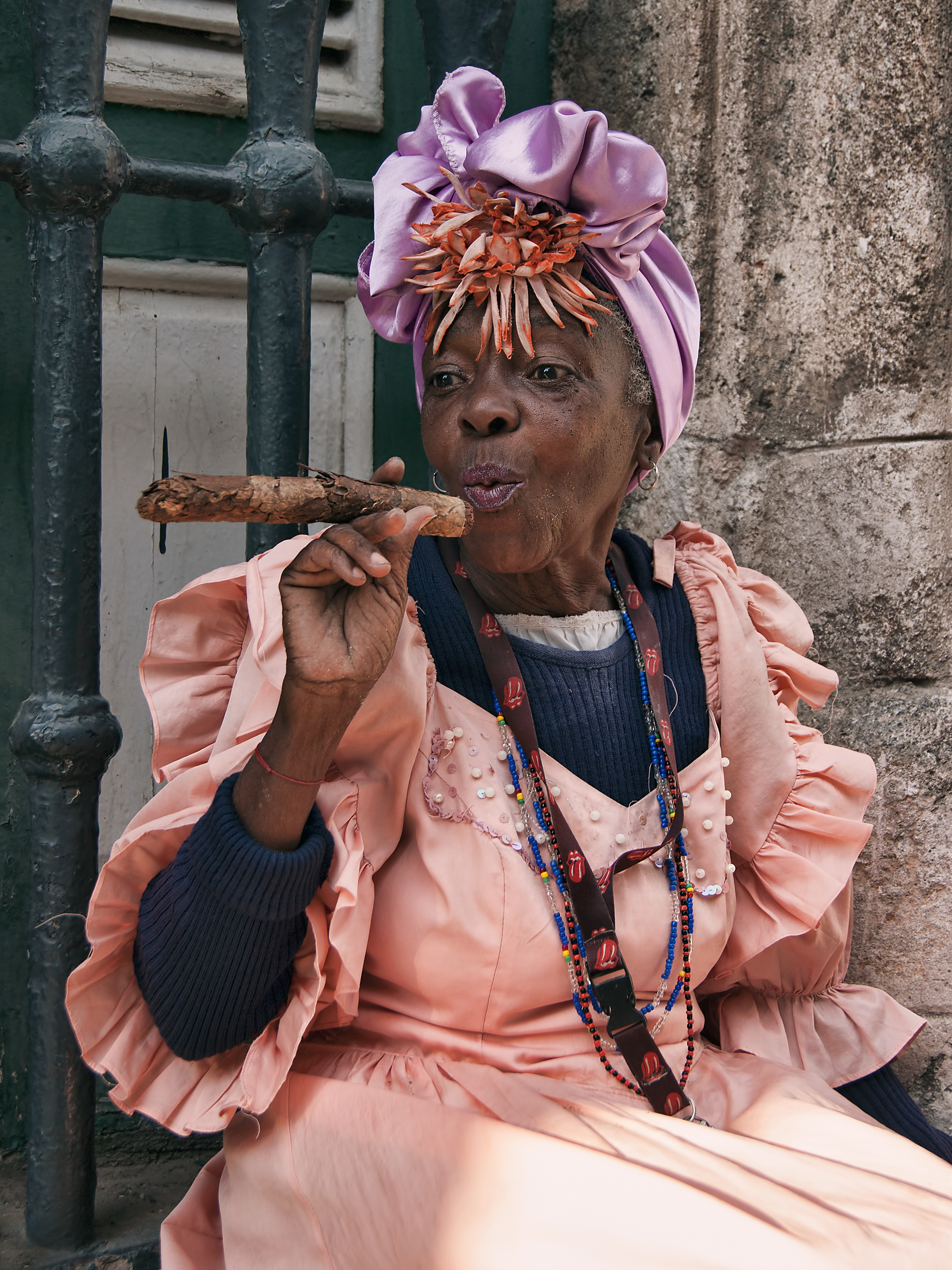 An older Cuban woman in colourful traditional costume poses playfully with her cigar outside the Plaza de Armas. Taken in Habana, Cuba. This image is licensed under a Creative Commons Attribution 4.0 International License. Please feel free to share, remix, and use it in your own creations, as long as you attribute the original source (preferably with a link here or to my website: Tinker & Rove). Thanks!